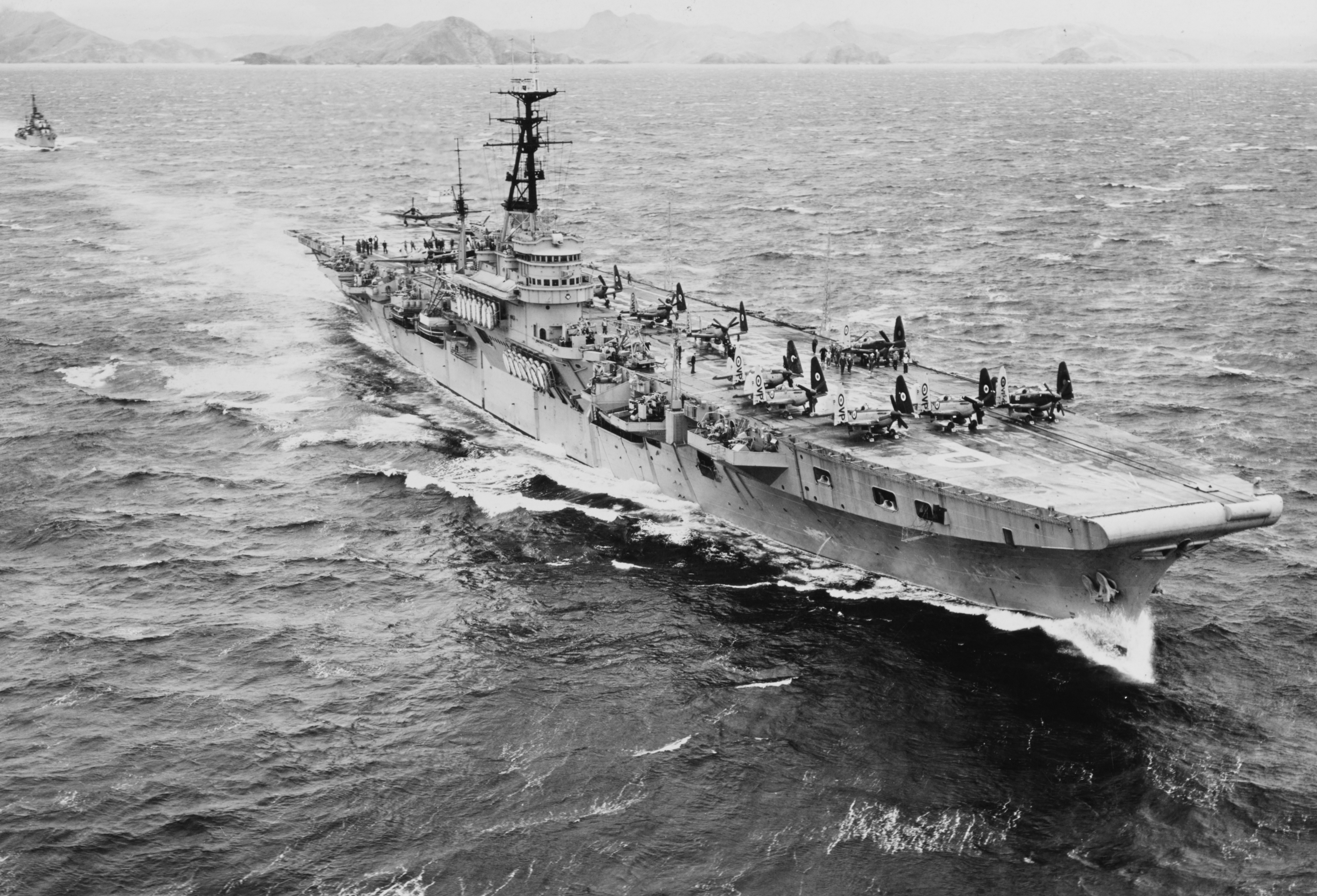 The Royal Navy aircraft carrier HMS Triumph (16) underway off Subic Bay, Philippines, during exercises, 8 March 1950. Planes on her deck include Supermarine Seafires, forward, and Fairey Fireflys aft.